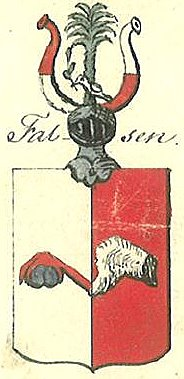 Coat of arms of Falsen family in several paper sheets with Norwegian arms drawn circa 1820